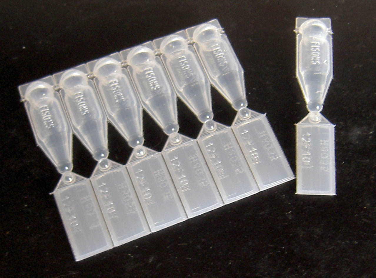 Eye drops